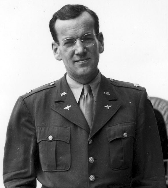 This photo from a US Government website ( shows Maj. Glen Miller during his service in the US Army Air Corps.